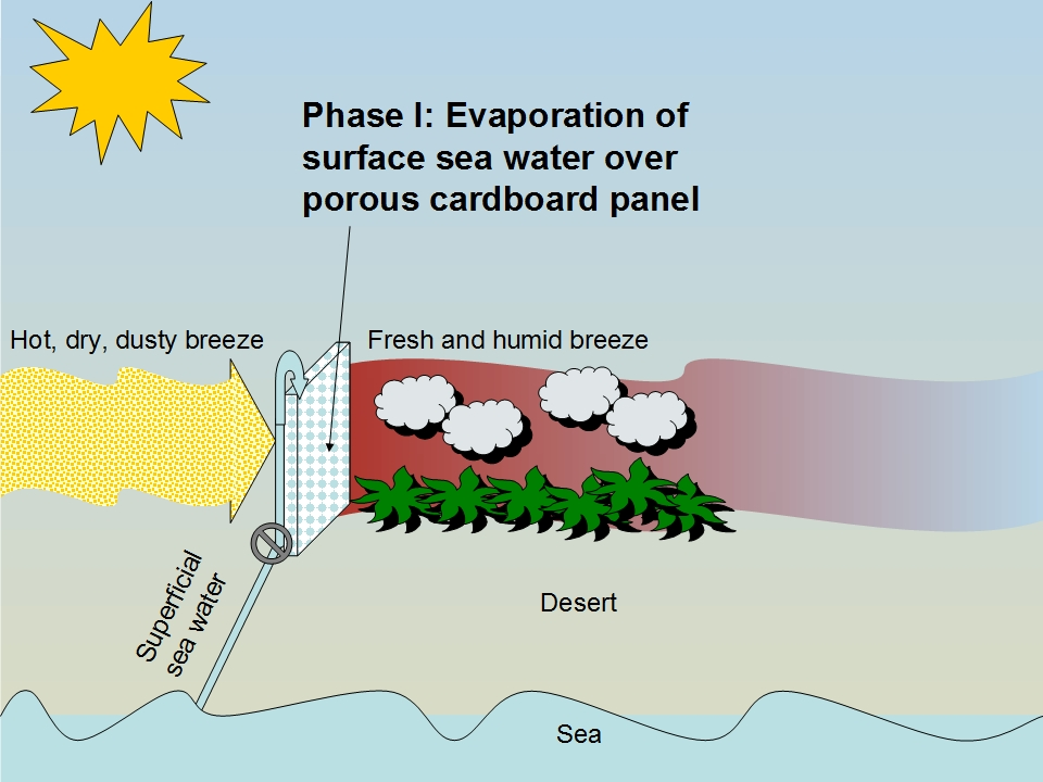 Drawing of Seawater Greenhouse evaporating process